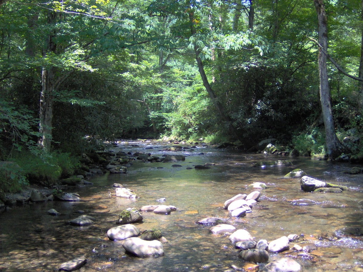 Bradley Fork at the Smokemont Campground in the Great Smoky Mountains of North Carolina. This stream, part of the Oconaluftee River watershed, flows down its source some 2,000 feet (609 meters) above Smokemont near the crest of the Central Smokies. The stream is named for Isaac Bradley (1772-1855) or one of his descendants.